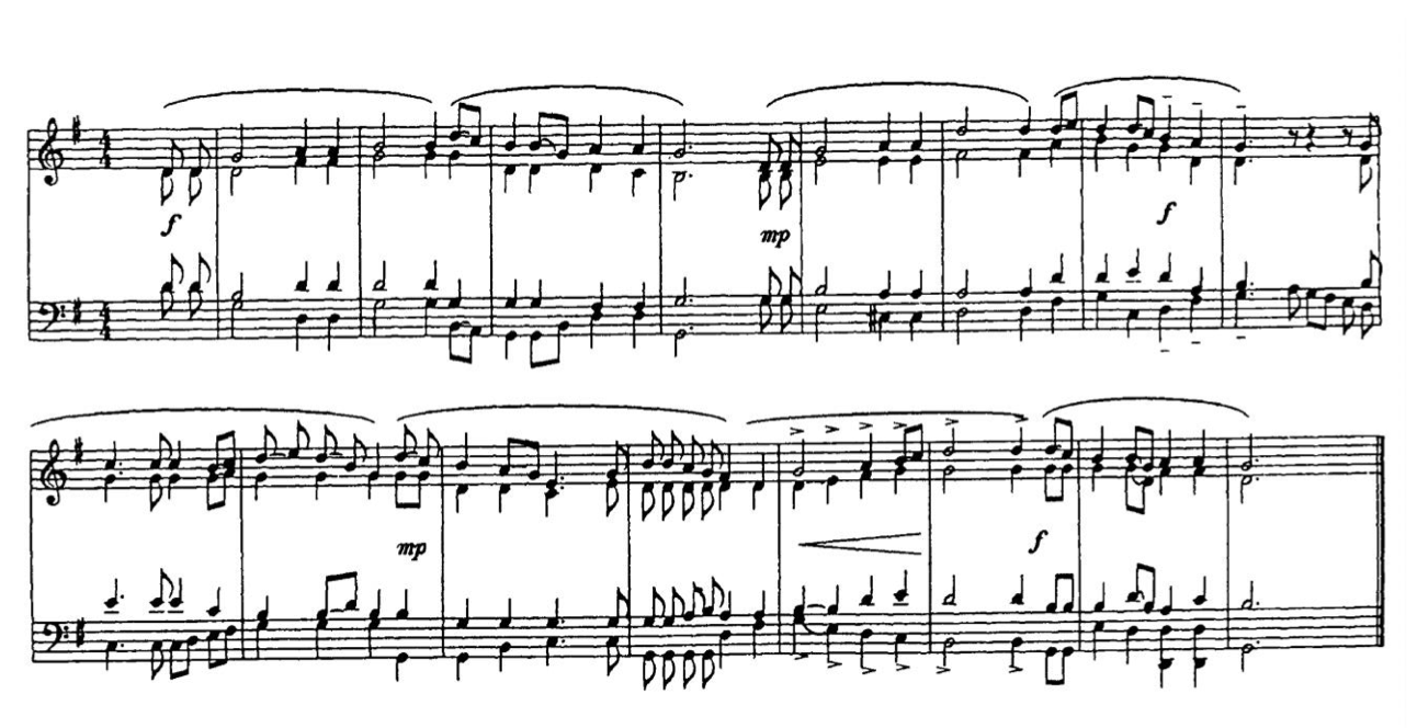 This is a scan of the Zimbabwean national anthem: Title: Simudzai Mureza wedu WeZimbabwe